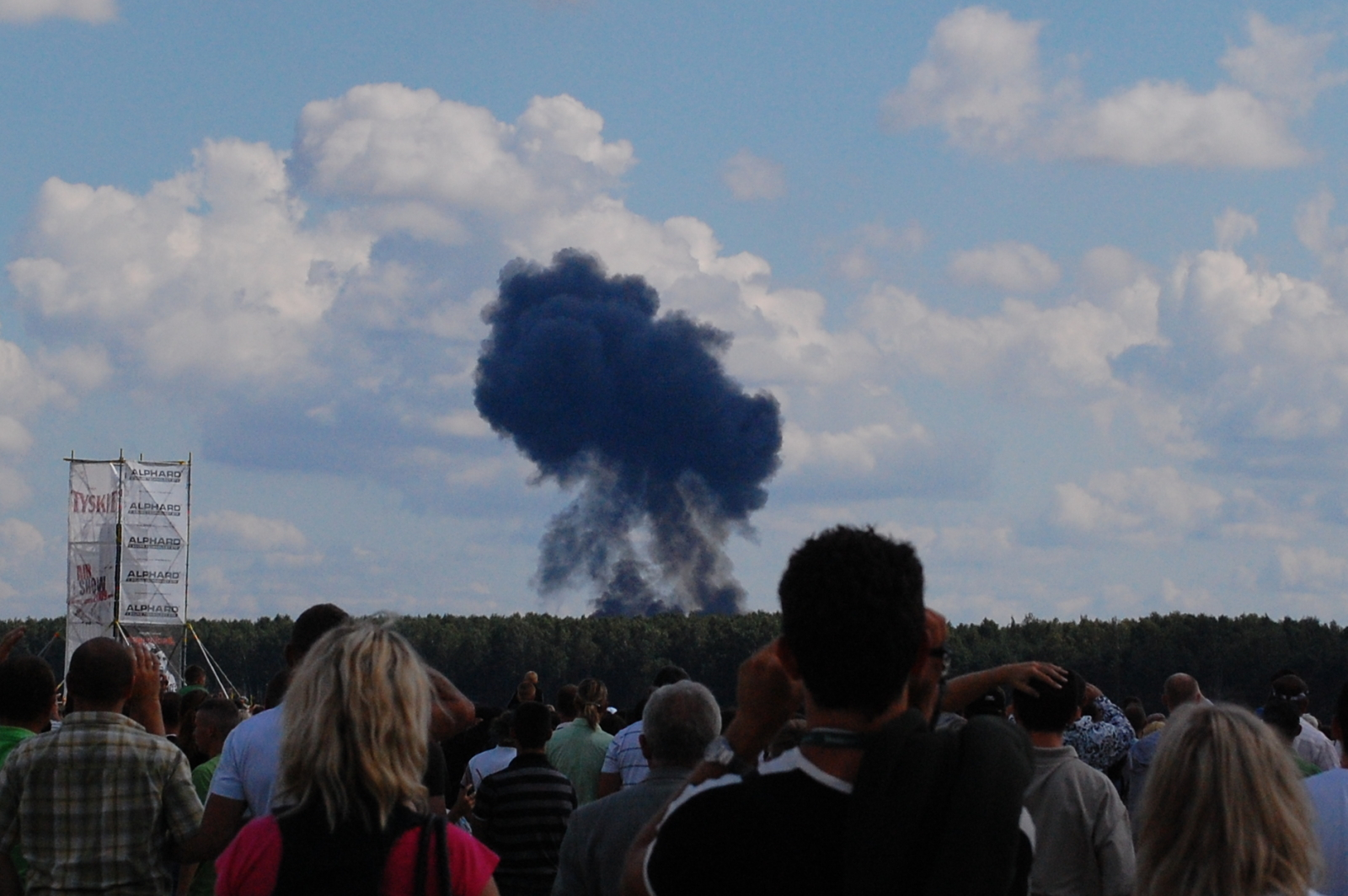 Cloud of smoke seen over crash site of the Belarusian Su-27UB Flanker during Radom Air Show 2009.